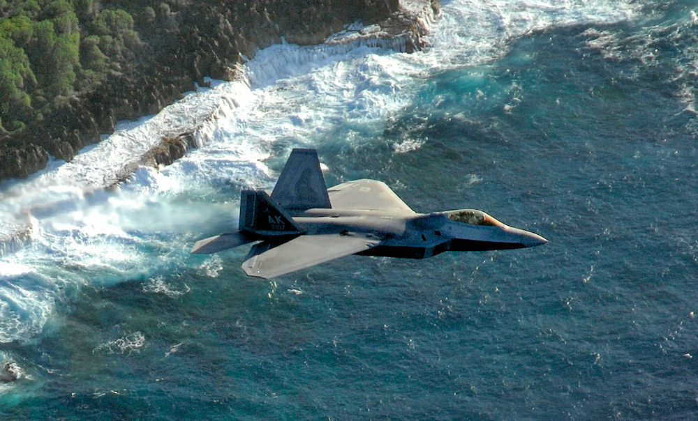 A Lockheed Martin F-22A Block 30 Raptor (05-4107) from the 90th Fighter Squadron flies over Guam for a training mission April 15 2007. The Raptors deployed from the 3rd Wing at Elmendorf AFB, Alaska, are part of the 36th Operations Group.